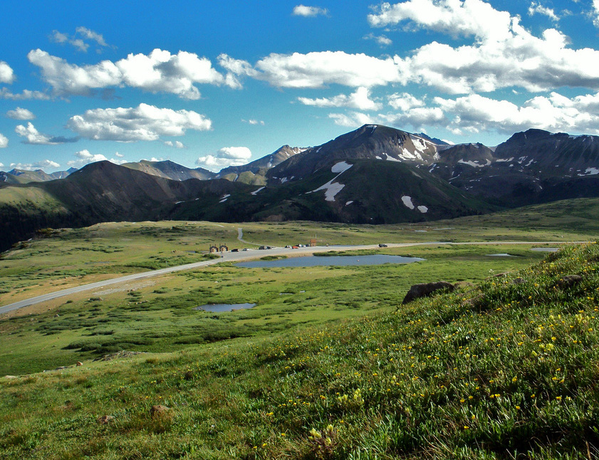 View from top of "Karma Cliff" Independence Pass, Colorado